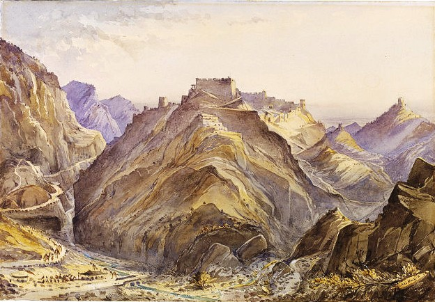 Watercolour, over pen and ink and pencil, touched with white. Ali Masjid fort. This work is in the public domain in its country of origin and other countries and areas where the copyright term is the author's life plus 70 years or fewer. You must also include a United States public domain tag to indicate why this work is in the public domain in the United States. Note that a few countries have copyright terms longer than 70 years: Mexico has 100 years, Jamaica has 95 years, Colombia has 80 years, and Guatemala and Samoa have 75 years. This image may not be in the public domain in these countries, which moreover do not implement the rule of the shorter term. Côte d'Ivoire has a general copyright term of 99 years and Honduras has 75 years, but they do implement the rule of the shorter term. Copyright may extend on works created by French who died for France in World War II (more information), Russians who served in the Eastern Front of World War II (known as the Great Patriotic War in Russia) and posthumously rehabilitated victims of Soviet repressions (more information). This file has been identified as being free of known restrictions under copyright law, including all related and neighboring rights.